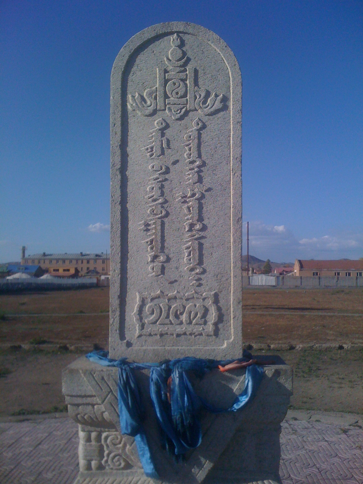 The honorary monument depicting the birthplace of Damdingyin Sukhbaatar, Amgalan - Ulaanbaatar